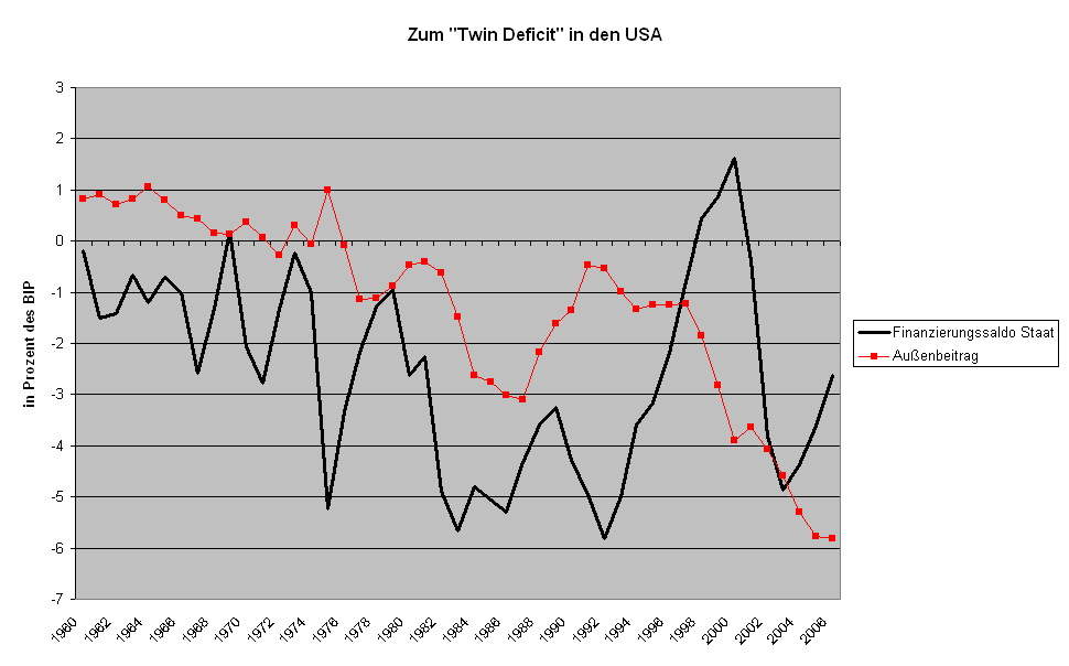 "twin deficit" in the USA